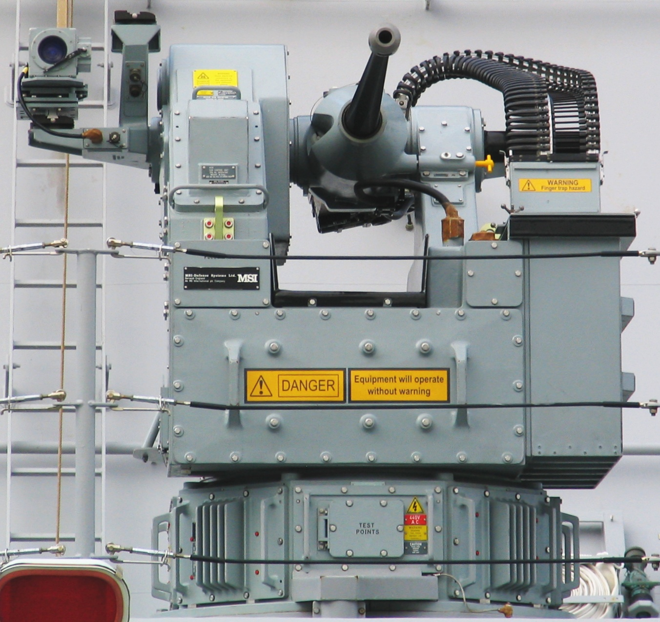 The 25mm Bushmaster Naval cannon and remote-control turret on the HMNZS Otago (P148), while on a port visit to Dunedin, New Zealand